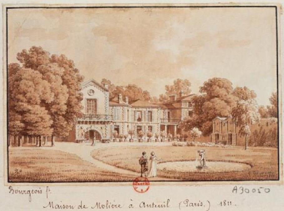 Moliere's house at Auteuil (now in Paris), 1811, drawn by Constant Bourgeois.